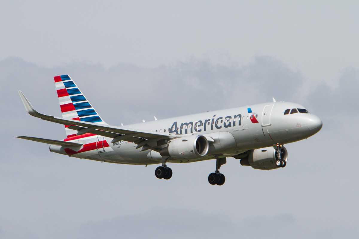 Airplane photo taken from Founder’s Plaza at DFW Airport. For additional photos see: DFW Airport Airplane Photos - April 2014. Photo (cc). If using photo, please credit: Photo courtesy Grant Wickes. In picture: American Airlines Airbus 319-112. N9015D. Flight number AA1579 arriving from Leon, Mexico (BJX) on Saturday April 12, 2014. Photo taken with Canon 7D using 70-200L IS lens with 1.4 extender. Picture by Grant Wickes principal of Wickpoint Management Services and VP Marketing System ID. airplanephotography #dfwairport #americanairlines #airbus